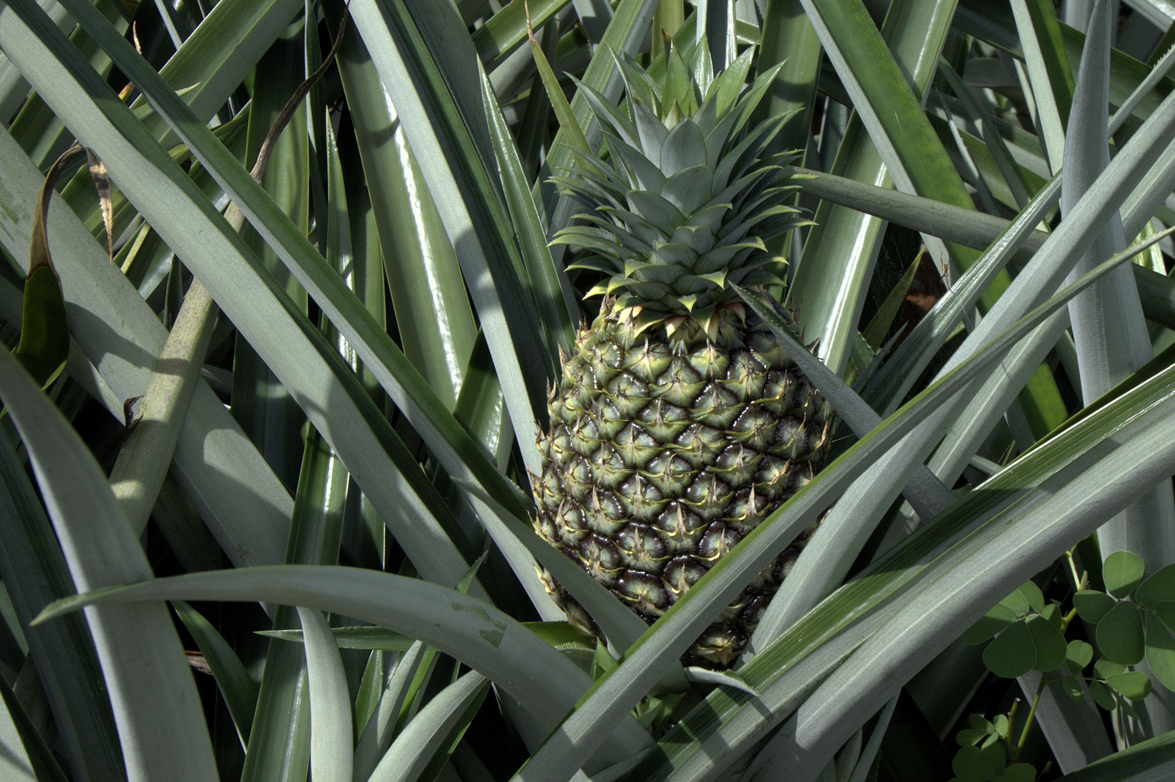 Pineapple on its plant, Costa Rica